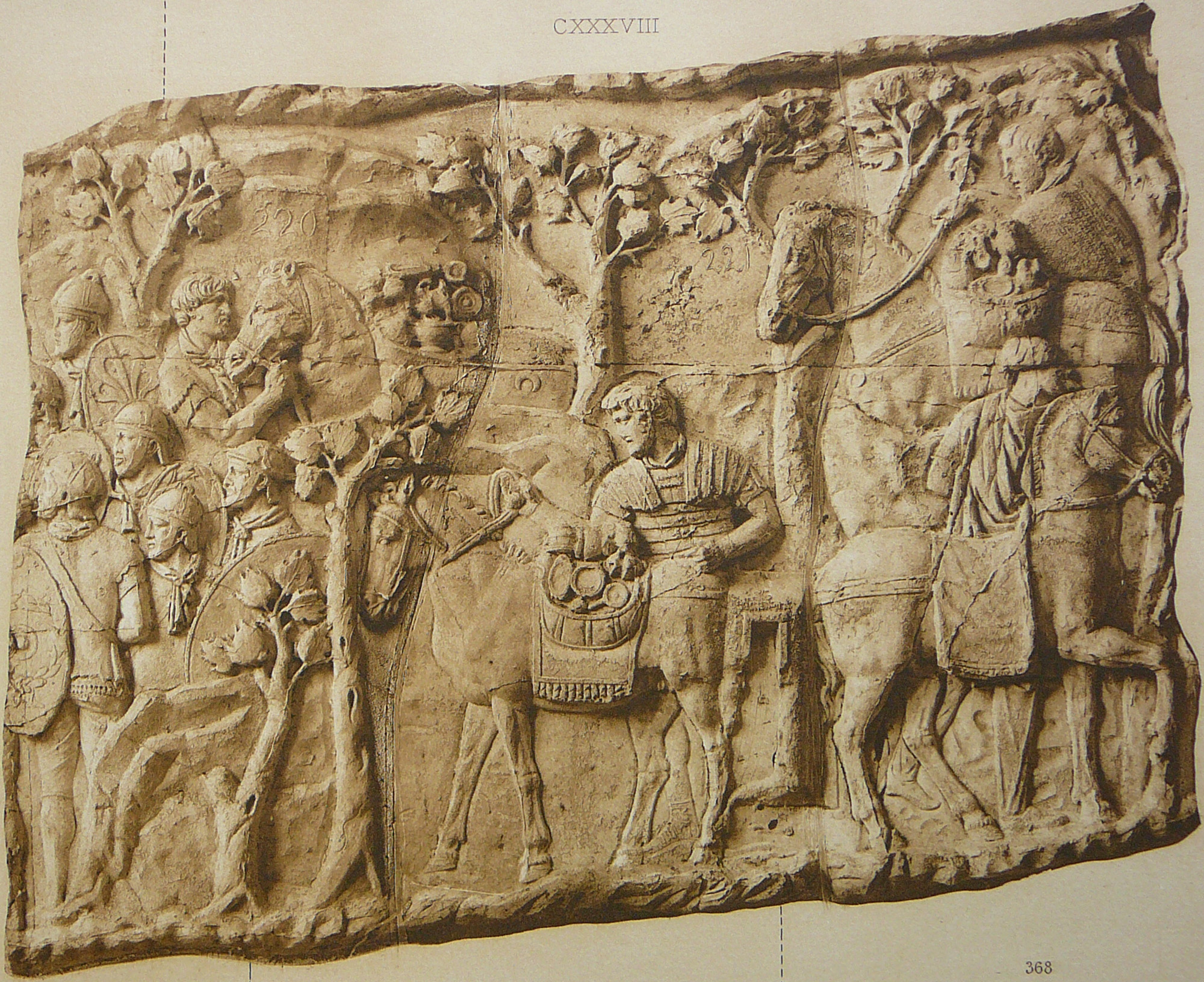 Trajan addresses his troops (scene CXXXVII); bringing in of valuable loot (scene CXXXVIII)